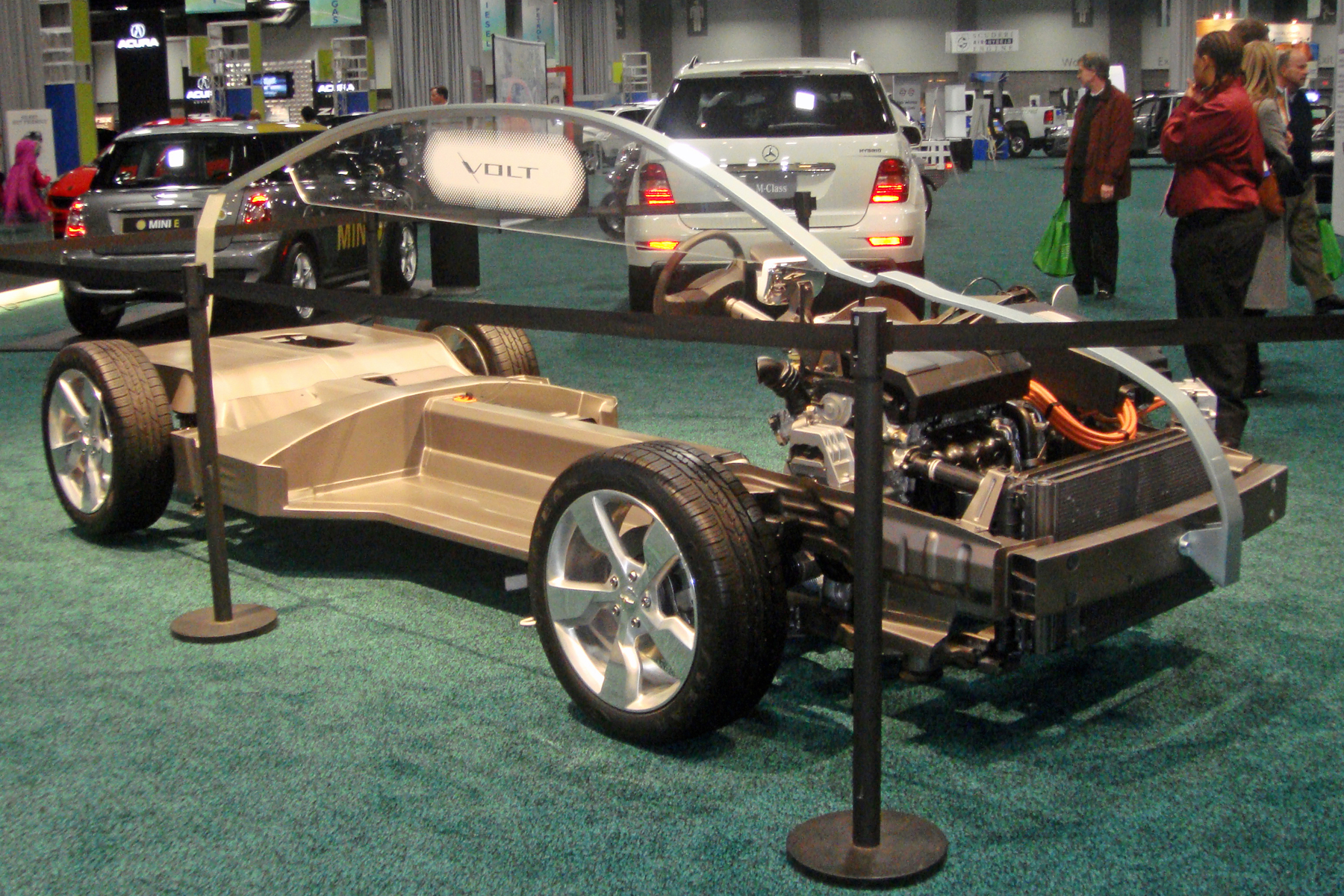 Chevrolet Volt drivetrain cut-away at the 2010 Washington Auto Show